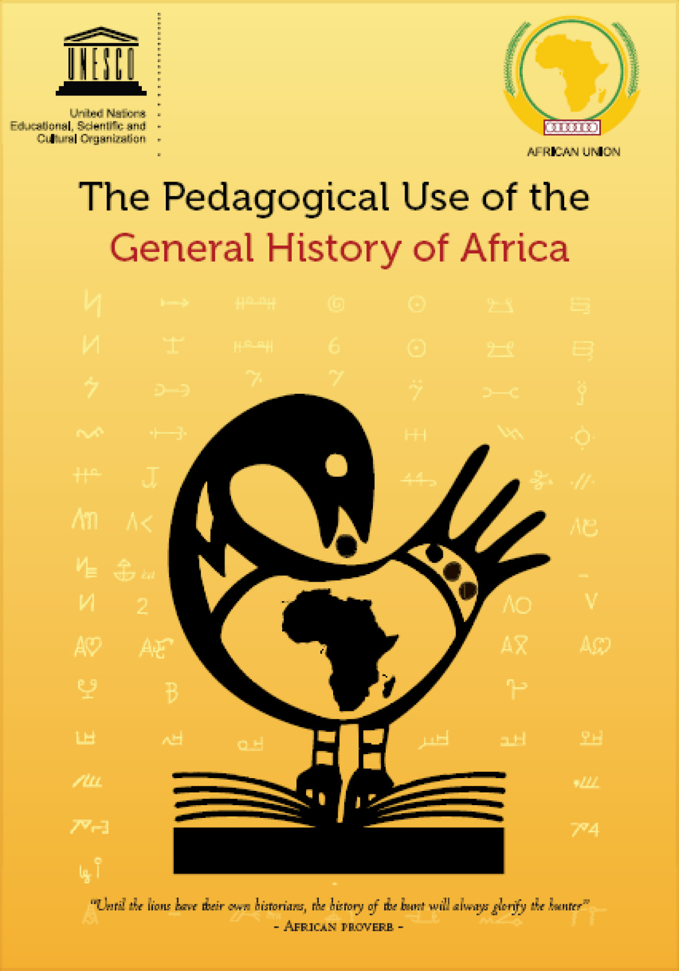 Image is of the front cover of the "Pedagogical Use of the GHA" brochure